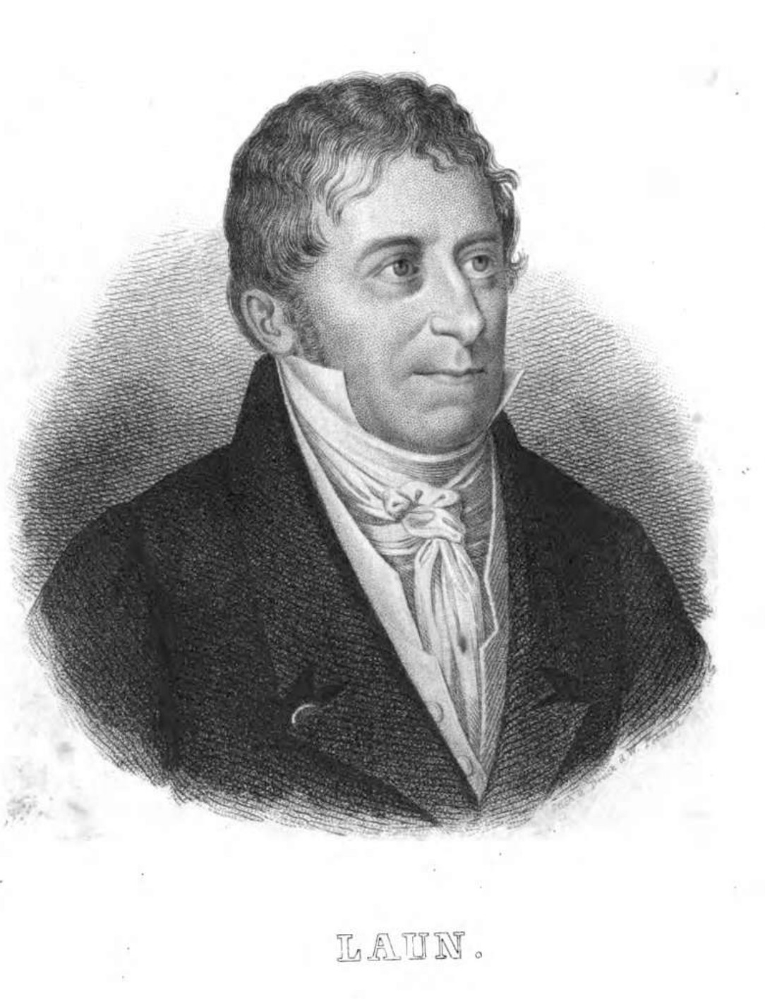 Detail of portrait of Friedrich August Schulze aka Frierich Laun. From: Friedrich Laun: Gesammelte Schriften. v. 1. Stuttgart 1843.